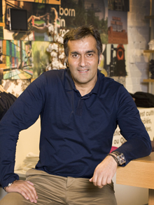 Bernard Mariette in a Lolë Atelier